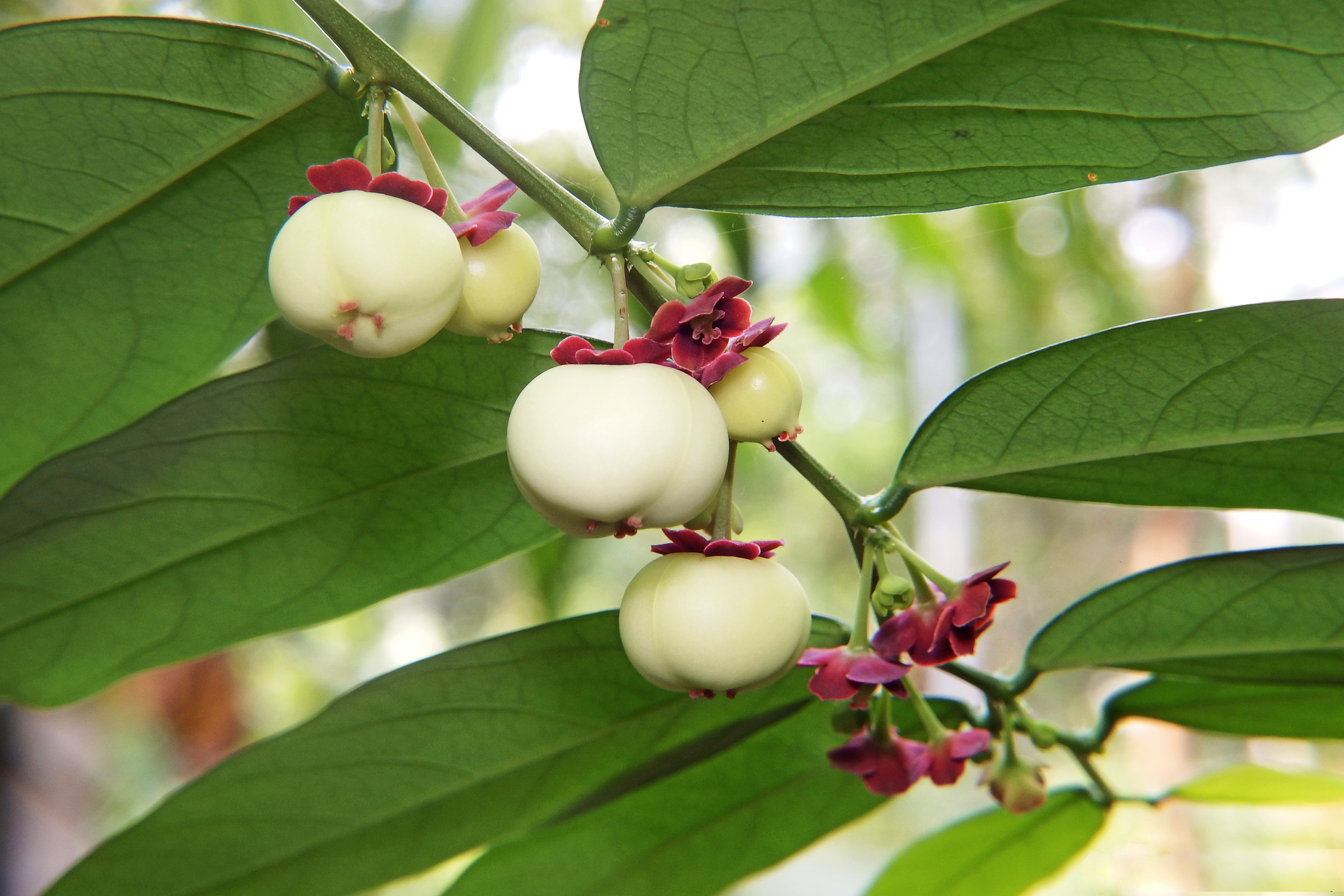 Star gooseberry (Sauropus androgynus)